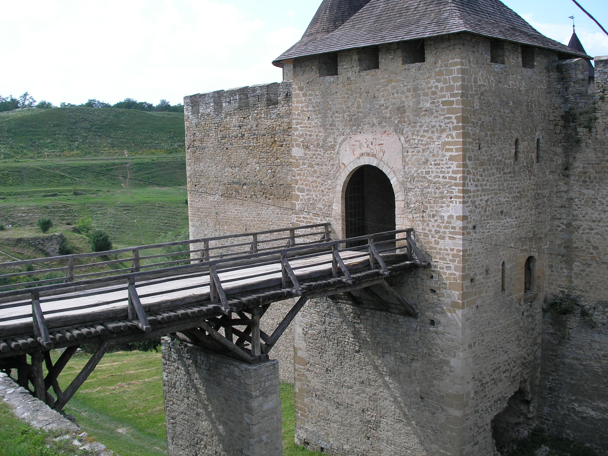 The entrance to the Khotyn Fortess in western Ukraine.